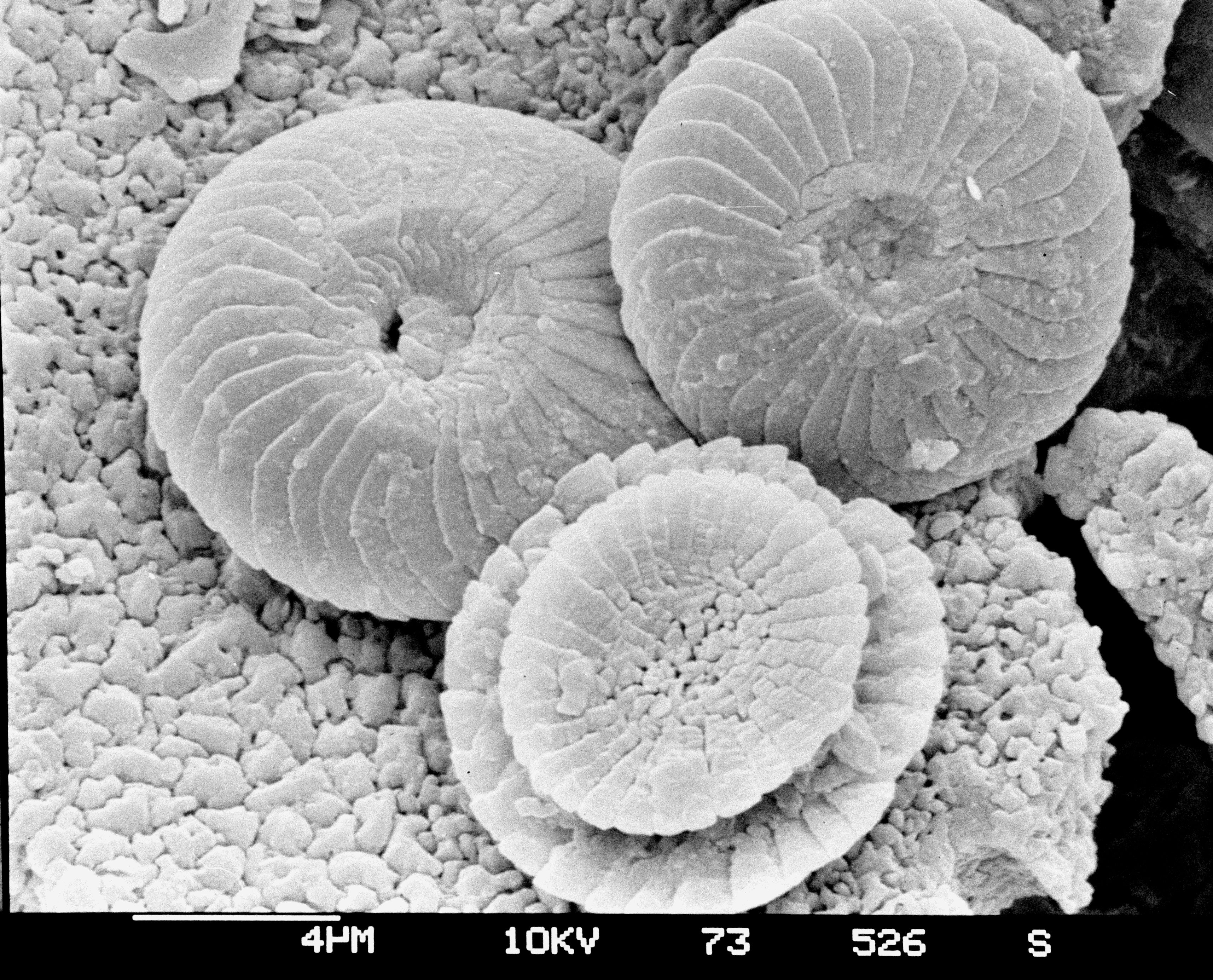 Microfossils from a sediment core of the Deep Sea Drilling Project (DSDP), Calcidiscus leptoporus